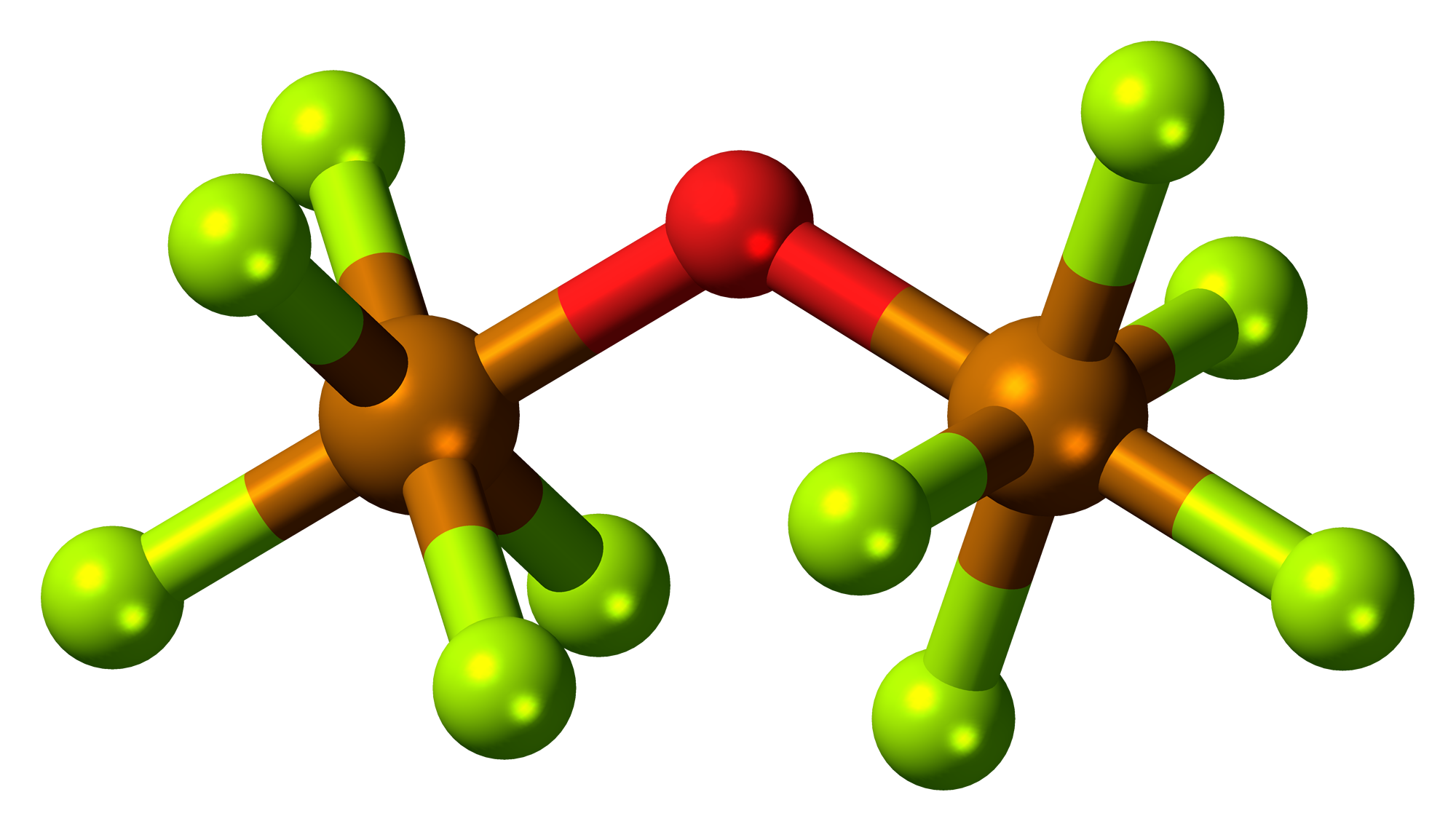 Ball-and-stick model of the teflic anhydride molecule, a compound derived from teflic acid. Colour code: Oxygen, O: red Yellow-green: Fluorine, F Tellurium, Te: brown